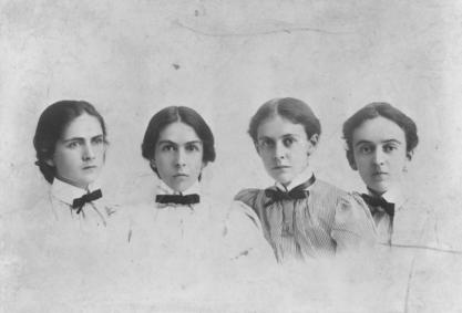 Alice Hamilton (second from left) with her sisters Norah, Margaret, and Edith.